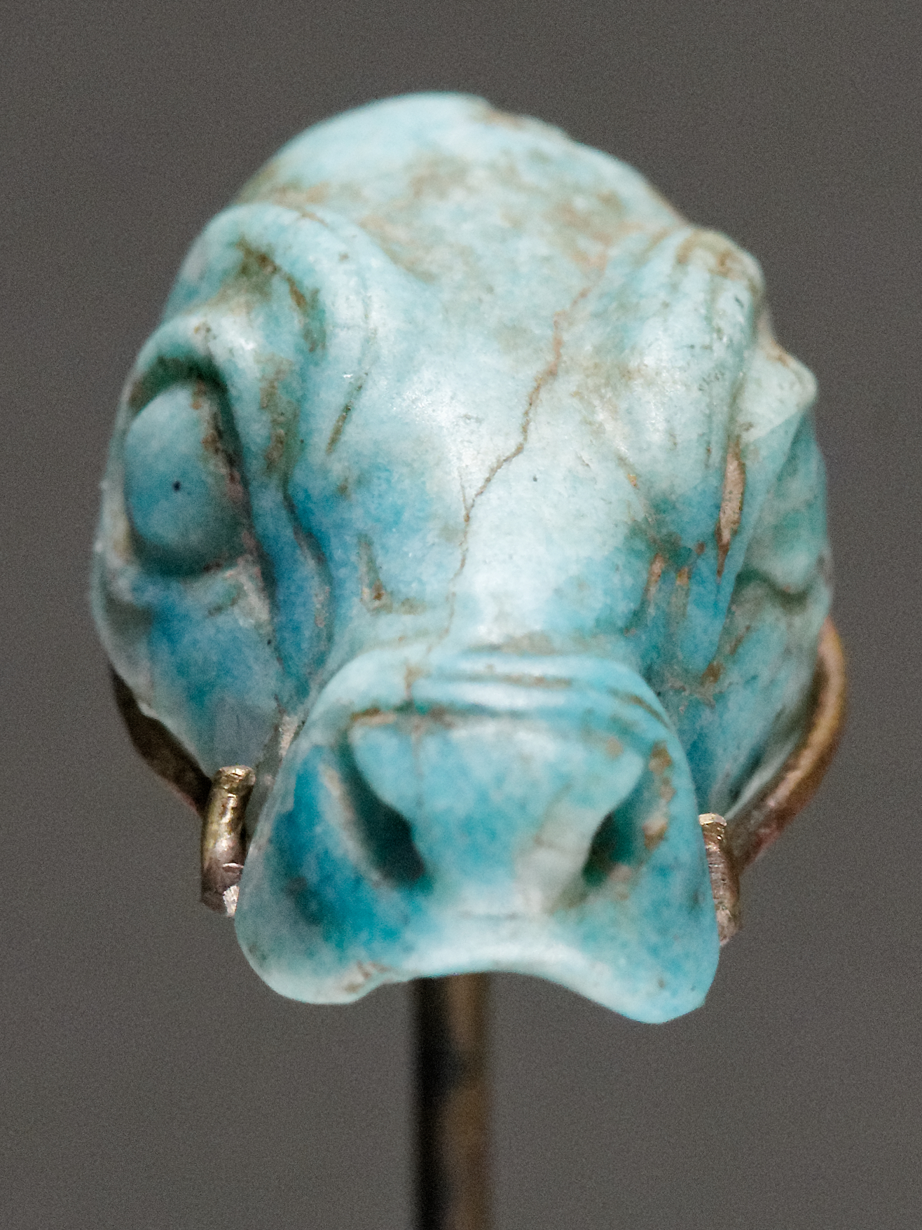 Amulet in the shape of the head of an animal with an inscription in the name of Kadashman-Turgu, Kassite period.